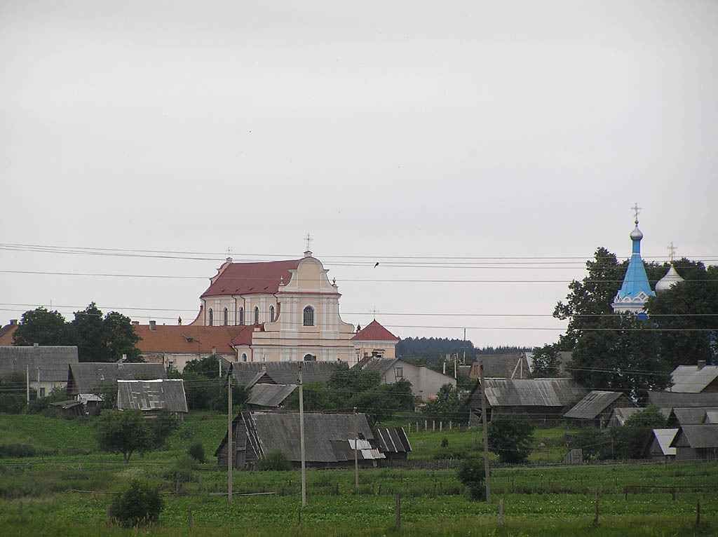 Galshany Church (1618, rebuilt 1770s)